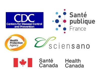 Some national public agencies in charge of public health surveillance